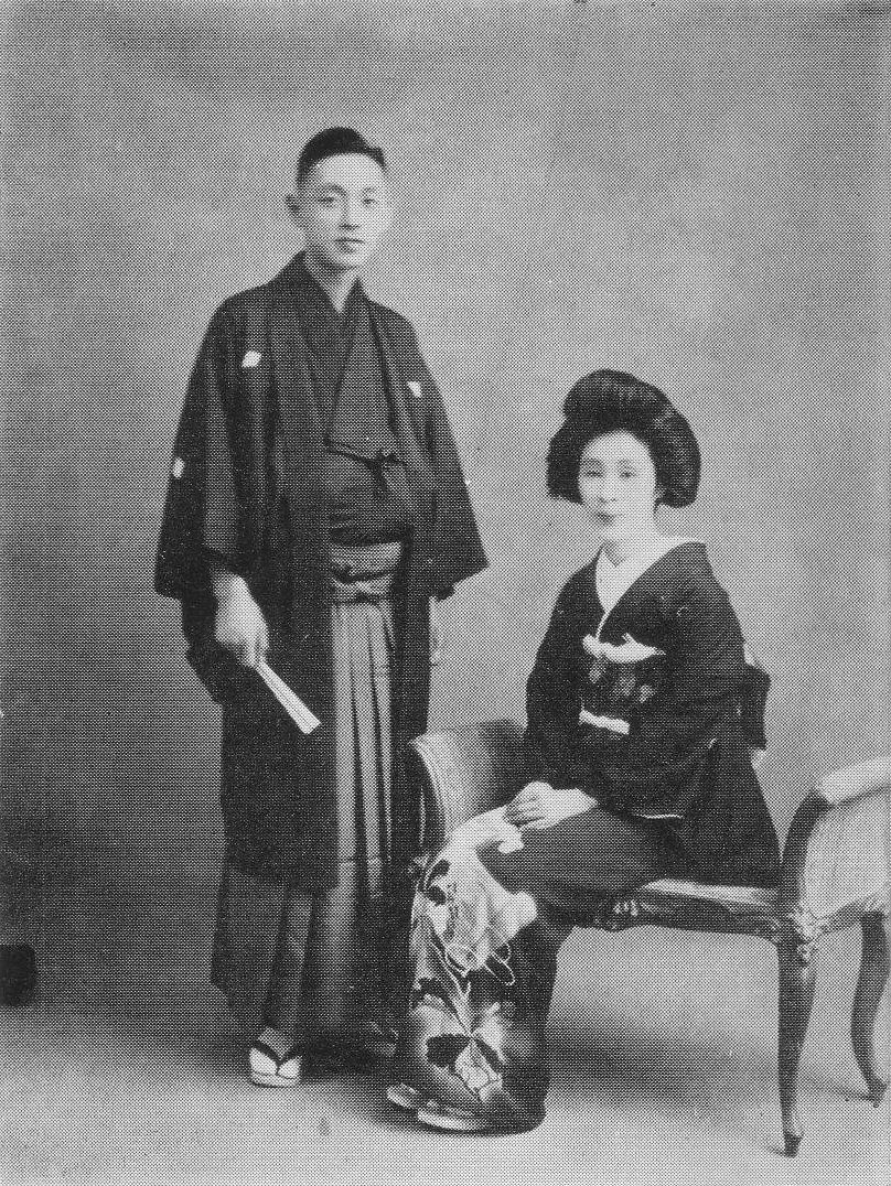 Ensho San-yutei VI (Rakugoka. taken 1928).